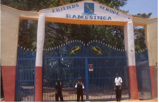 Friends School Kamusinga School Gate